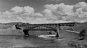 Jinja Bridge over the White Nile at Jinja, Uganda (photo taken from Jinja side of River) prior to the construction of Owen Falls Dam